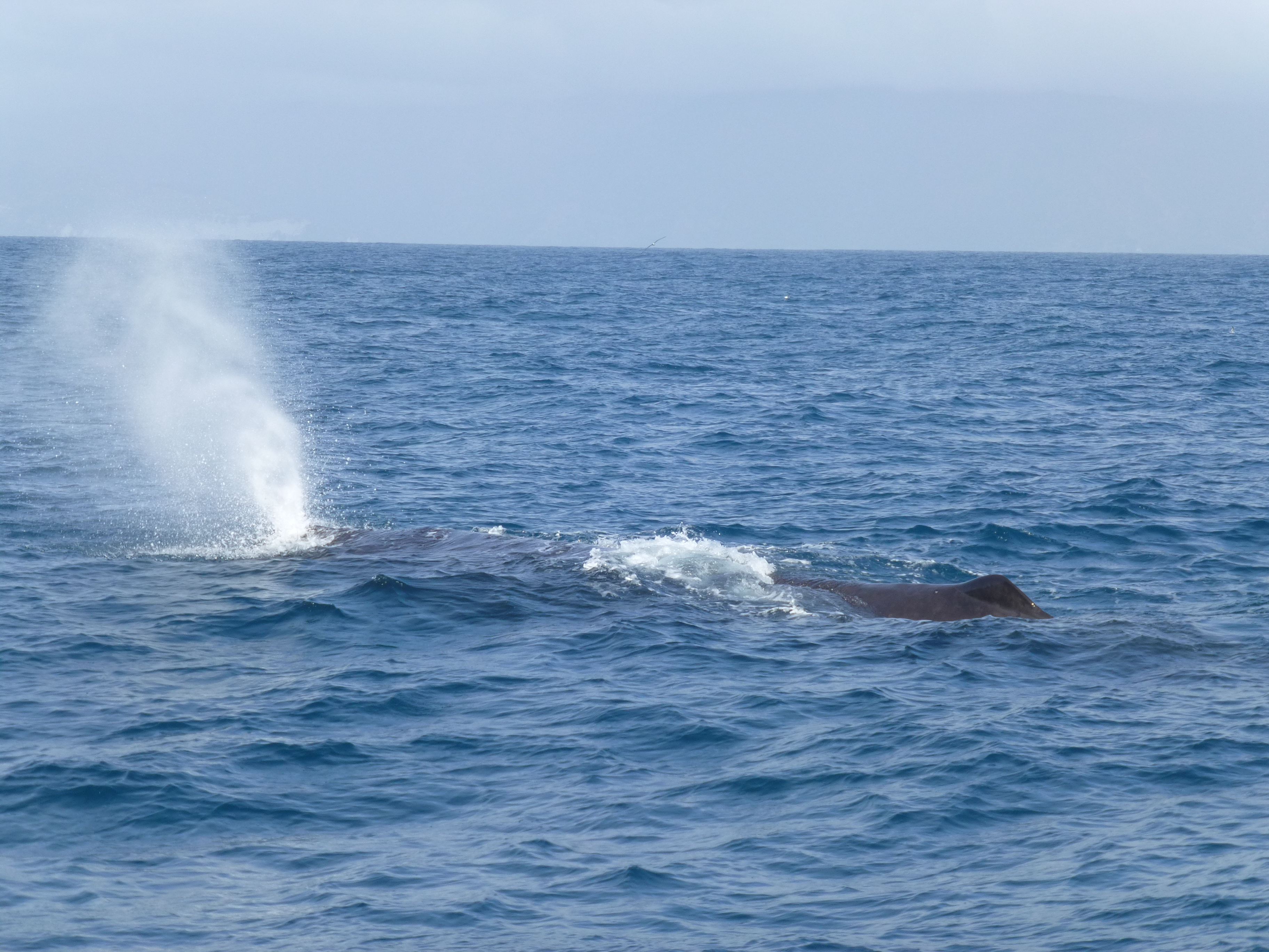 Sperm whale (Physeter macrocephalus) at Kaikoura, New Zealand